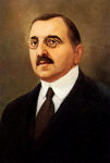 Greek politician and 6 days prime minister (1922, 3 - 9 May), Nikolaos Stratos. He tried and executed for his role in the Catastrophe of 1922. Oil in painting